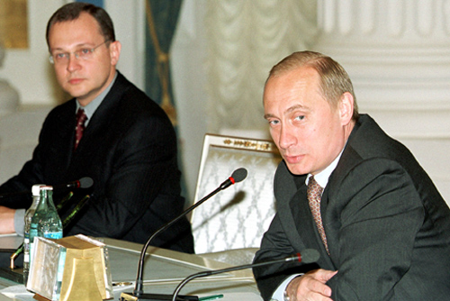 THE KREMLIN, MOSCOW. Vladimir Putin introducing Sergei Kiriyenko, Presidential Plenipotentiary Envoy to the Volga Federal District.